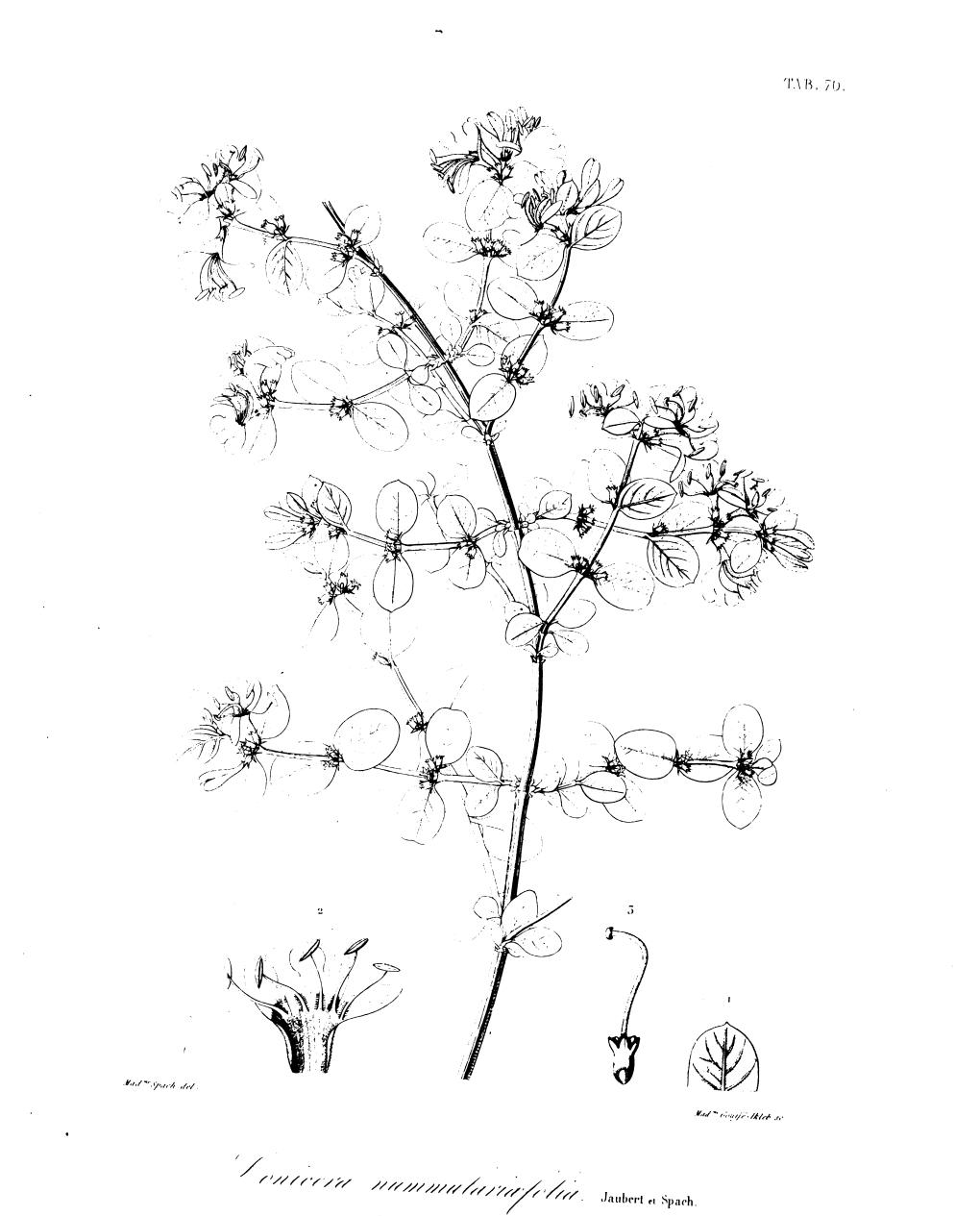 Lonicera nummulariifolia Jaub. & Spach Jaubert C. et Spach E. Tab. 70. Lonicera nummulariæfolia // Illustrationes plantarum orientalium… — Parisiis, 1842—1843. — Vol. 1.